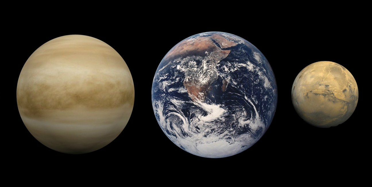 This diagram shows the approximate relative sizes of the terrestrial planets, from left to right: Venus, Earth and Mars. Distances are not to scale.